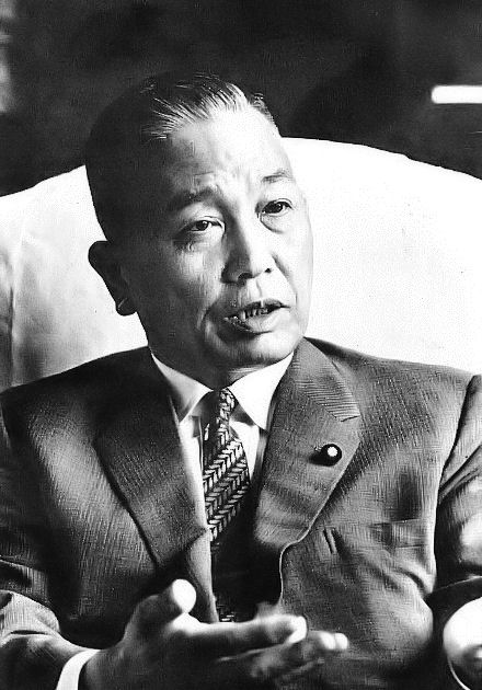 Masuo Araki